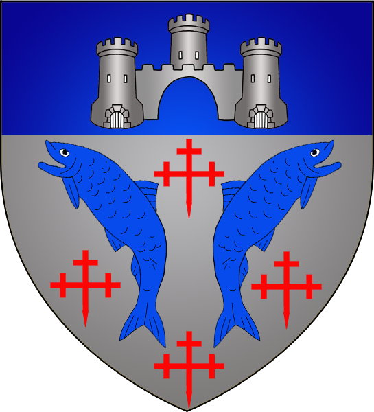 Coat of arms of the municipality of Clemency, Luxembourg (valid until 1 January 2012)